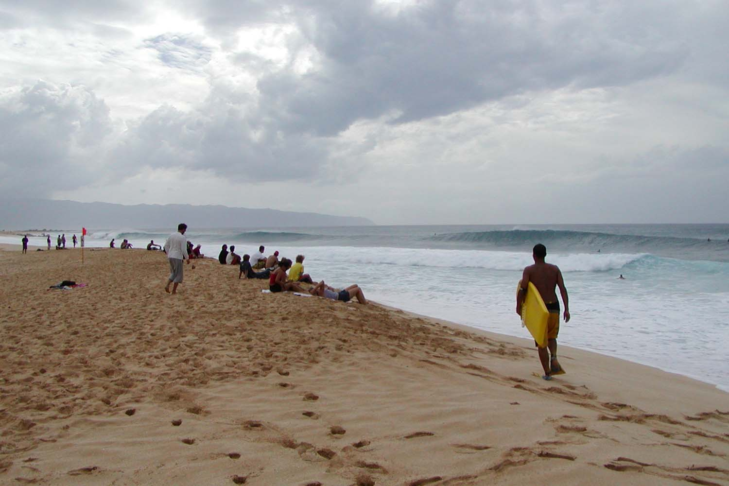 Oahu North Shore people watching surfers